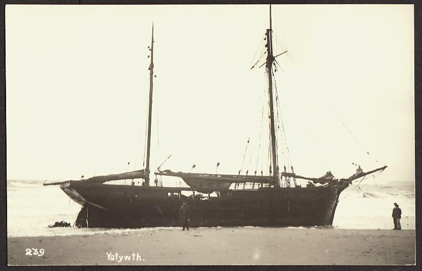 Sailing Ketch Ystywth, aground on low tide